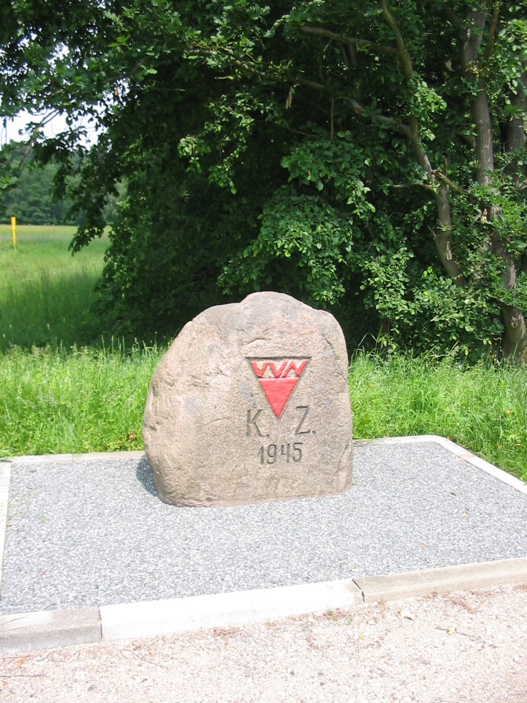 memorial of concentration camp near Wöbbelin, Germany